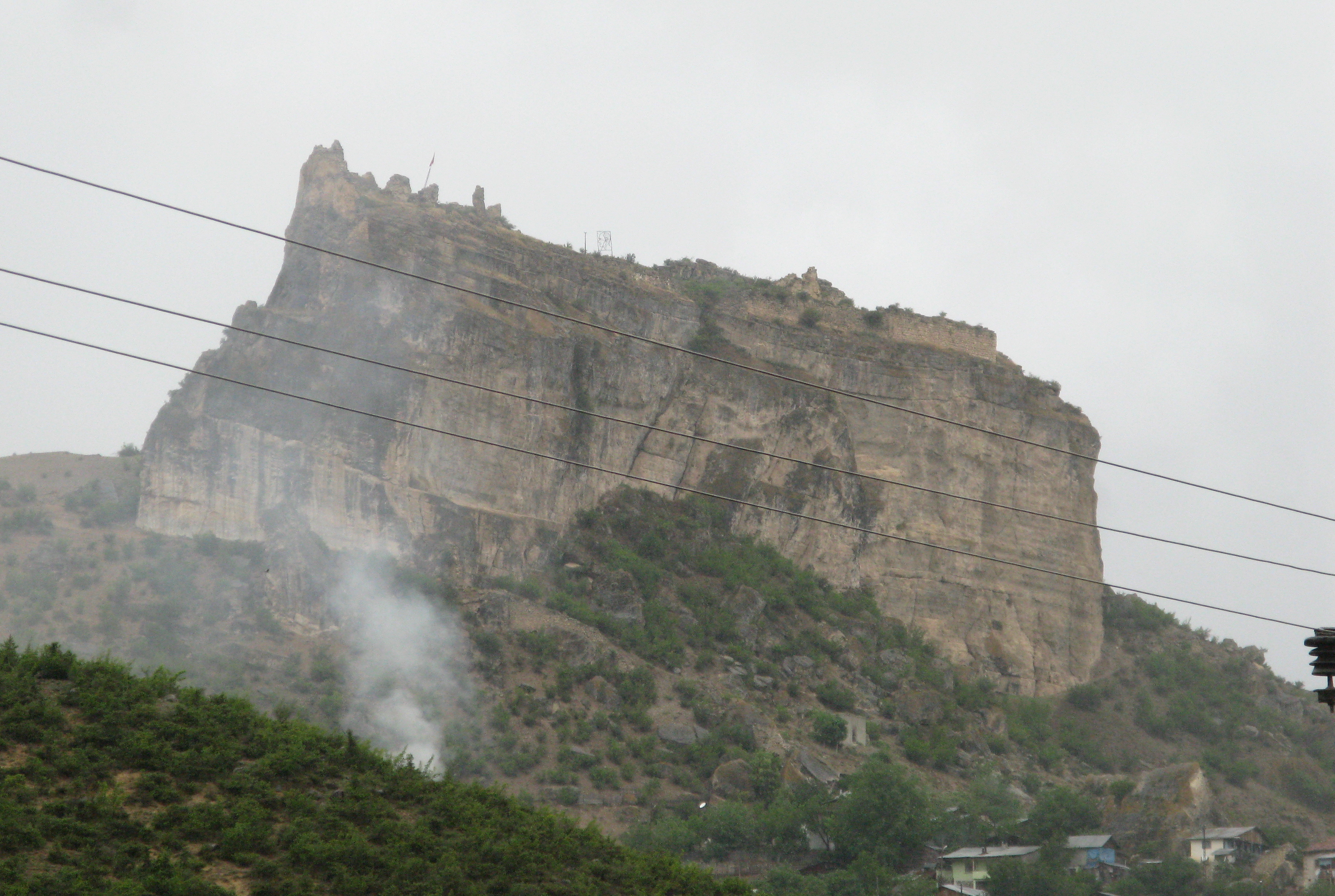 Castle of Ardanuç in the Province of Artvin in Turkey.